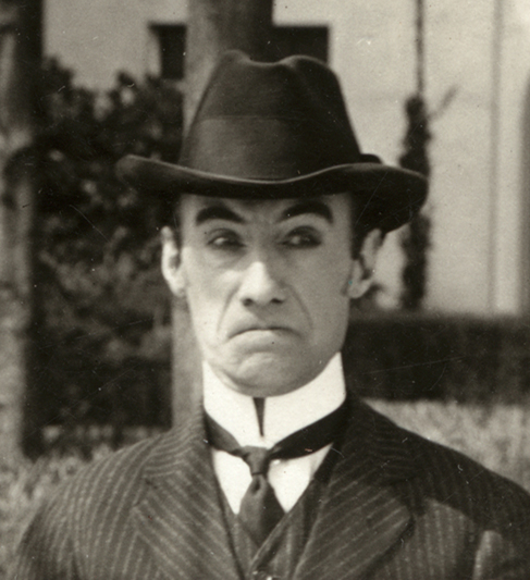 Actor Claude Cooper from a 1915 scene still from the Thanhouser silent film Daughter of Kings.